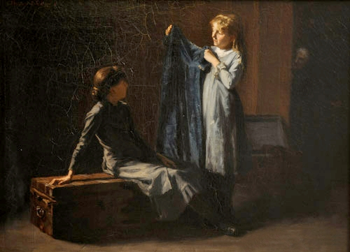 Elizabeth Rebecca Coffin, Grandmother's Garret, 1884